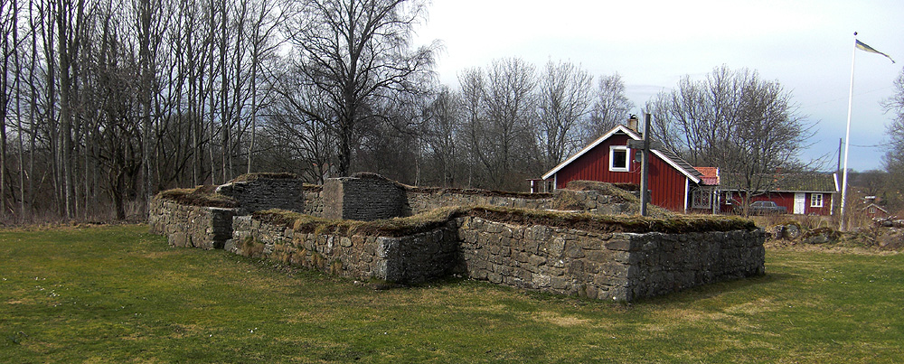 The Överkyrke church ruin in Gökhem parish, Vilske hundred, Falköping municipality, Västergötland, Sweden.